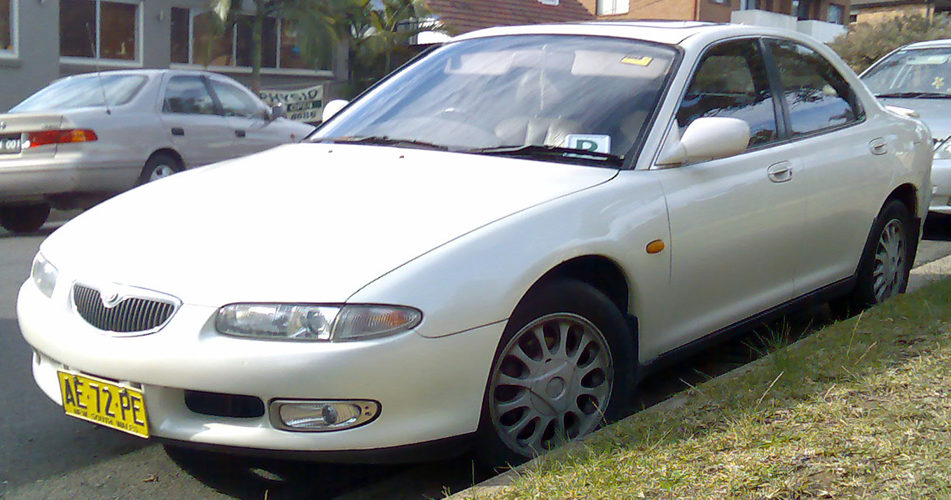 1992–1996 Eunos 500 sedan. Photographed in Gymea, New South Wales, Australia.